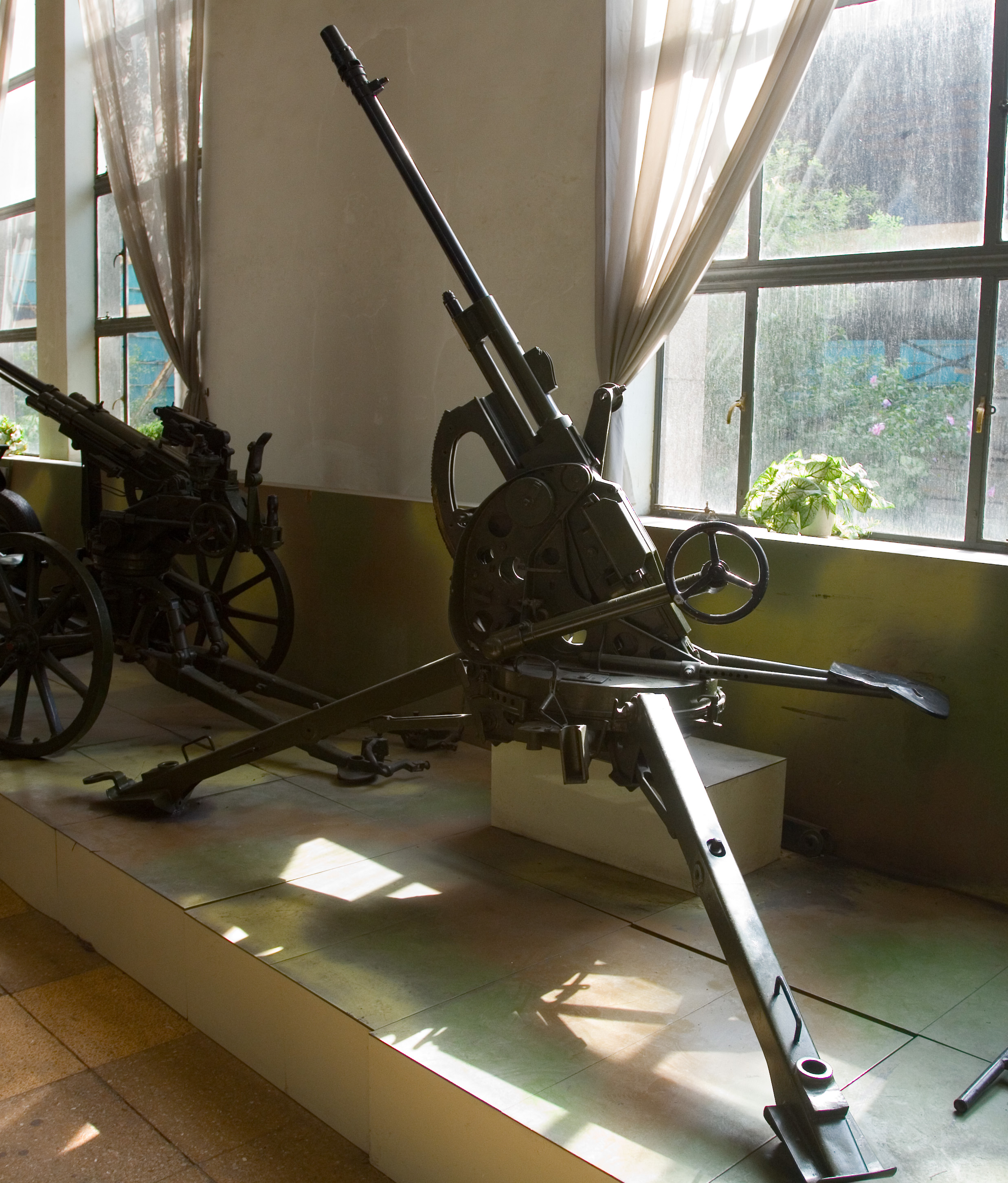 A Breda 20/65 "Cannone-Mitragliera da 20/65 mod.35" 20 mm anti-aircraft gun at the Beijing Military